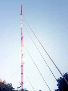 Togane relay station